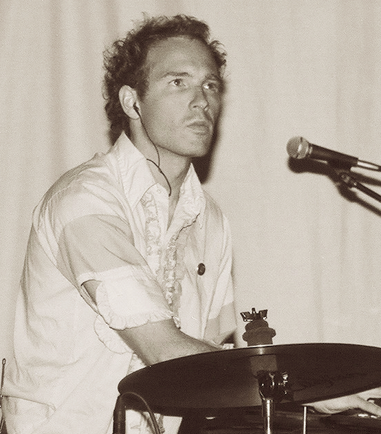 Daniel Victor Snaith (born 1978) is a mathematician who is better known as the composer, musician and recording artist under stage names Caribou and Manitoba. Taken by Alex Reynolds at the Trocadero Theatre, Philadelphia, Pennsylvania, USA on May 10, 2005. © 2005 Alex Reynolds